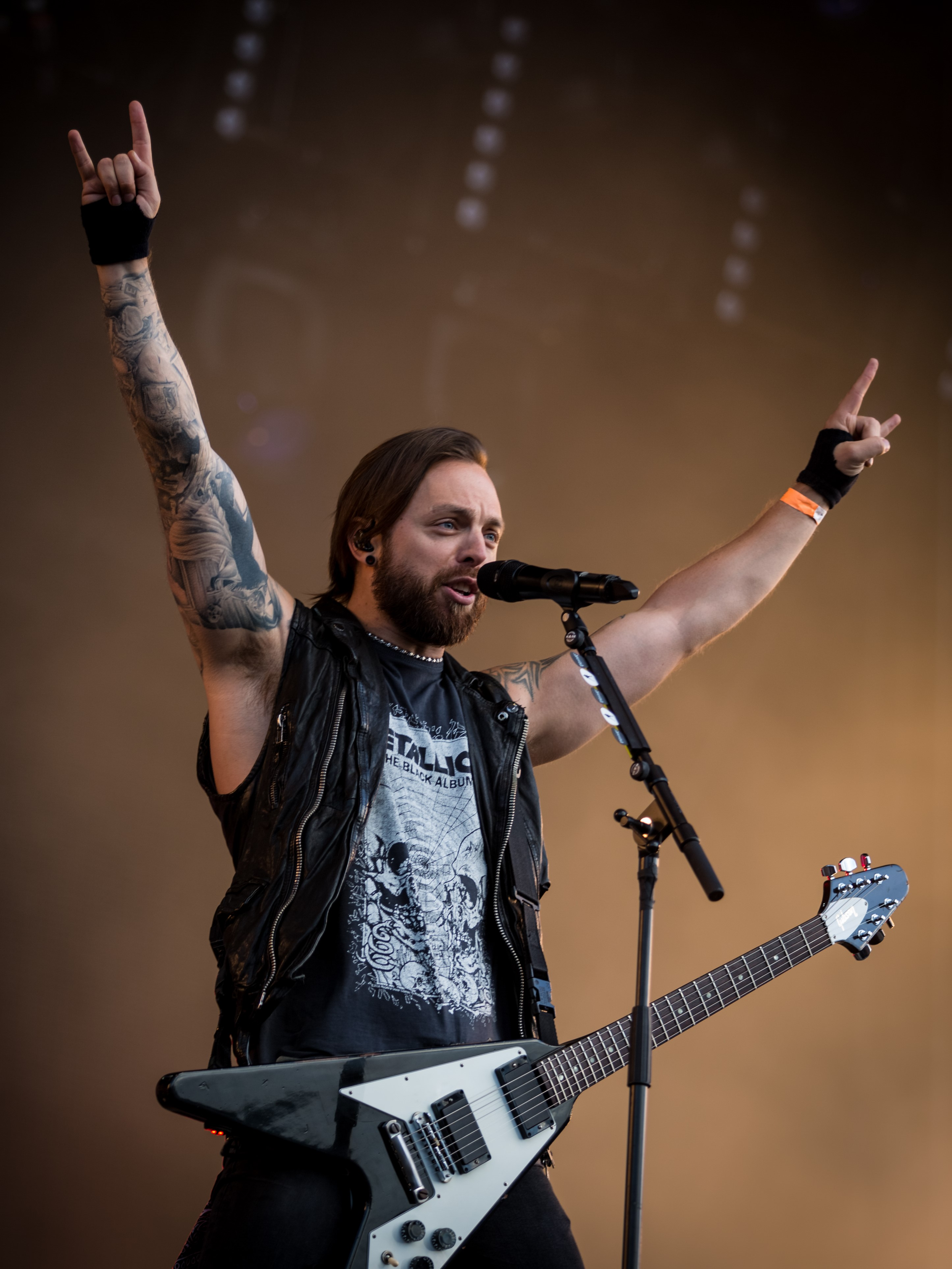 Bullet for my Valentine - Wacken Open Air 2016